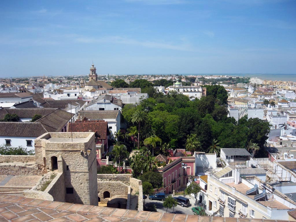 Deri